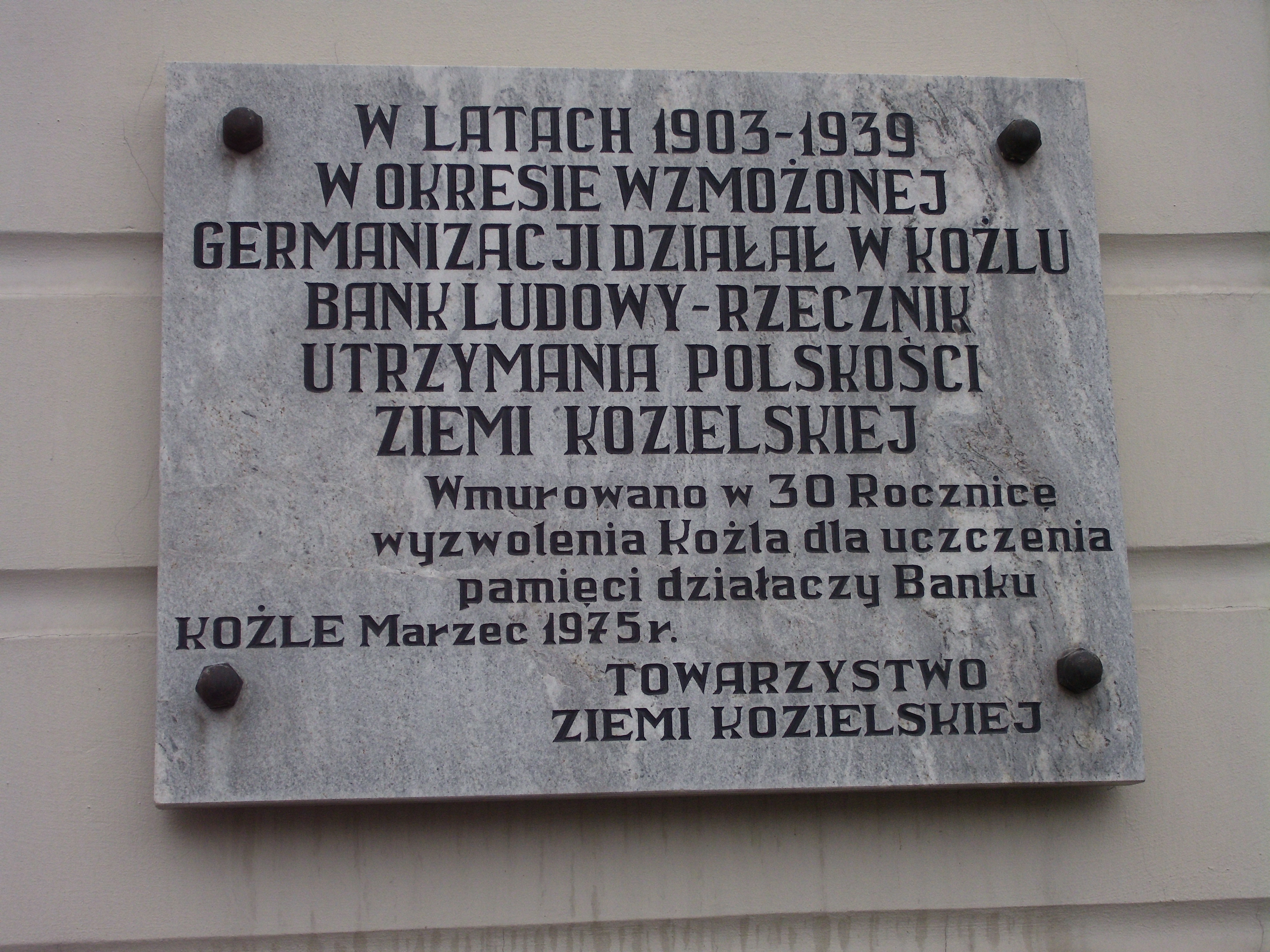 Memorial plaque at the former location of Bank Ludowy w Koźlu (Volksbank Cosel) in Koźle, Poland. The bank supported Polish minority in the area in 1903-39 when it was a part of Germany.